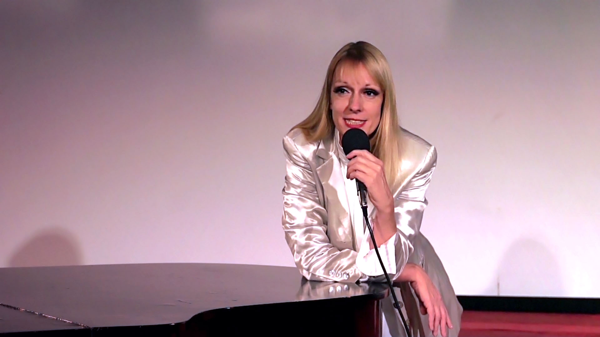 Maila Barthel